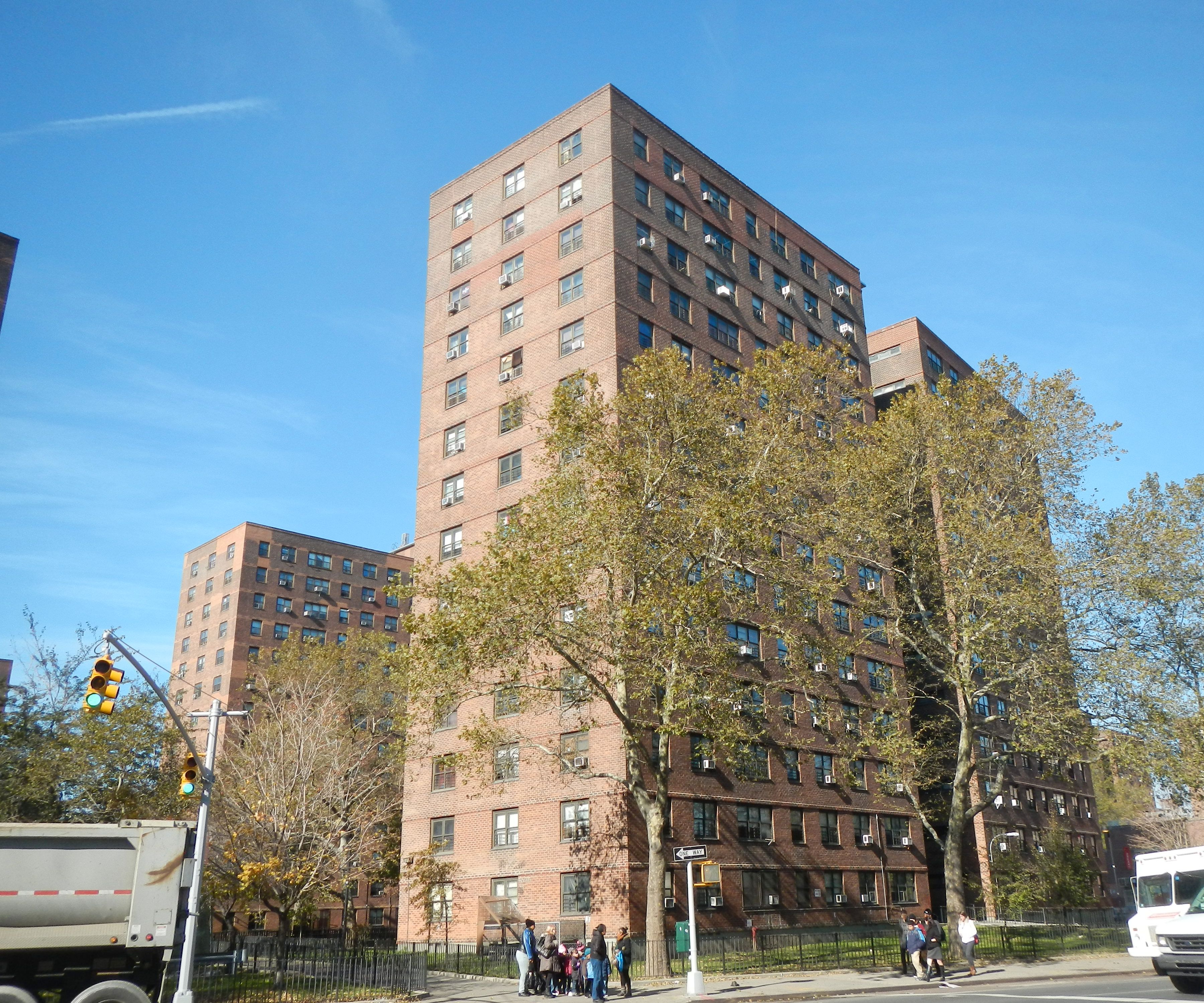 Looking north across 2nd Avenue at northern part of Washington Houses on a sunny midday.